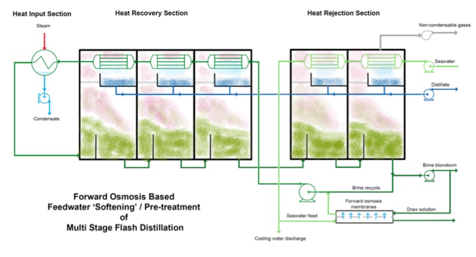 Simple diagram showing one method of integrating forward osmosis with multi stage flash distillation.